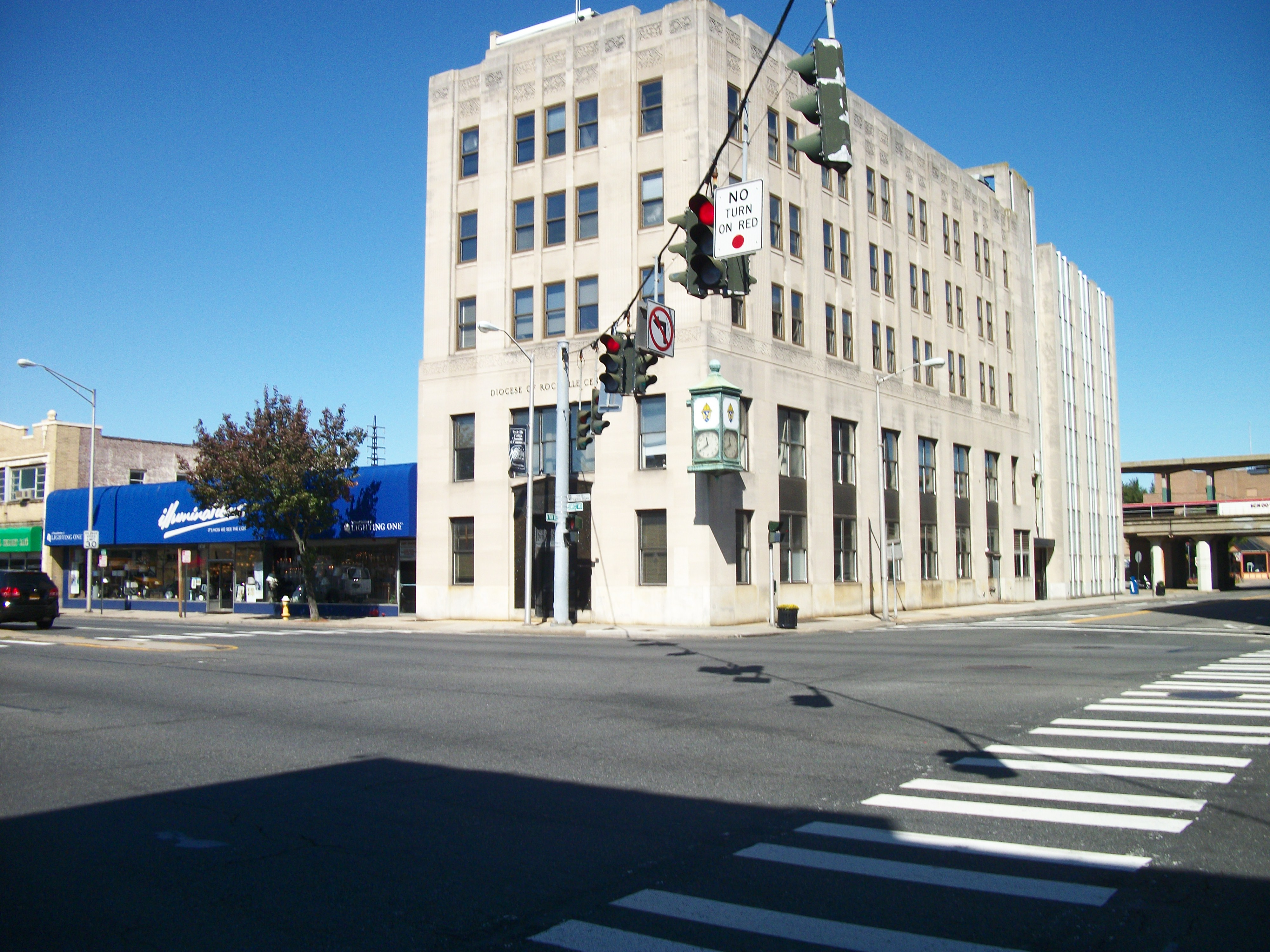 Corporate offices of the Roman Catholic Diocese of Rockville Centre on the northwest corner of Sunrise Highway and North Park Avenue in Rockville Centre, New York. This is south of St. Agnes Cathedral.